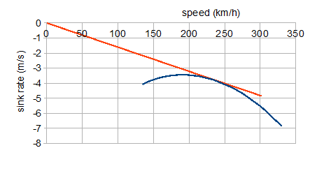 polar for unpowered aircraft with weight 2000 kg, wing arae 15 m^2 in atmosphere density 1.2 kg/m^3. Drag polar 0.017+ 0.075*(Cl-0.1)^2